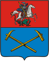 Podolsk (Moscow oblast), coat of arms (1781)